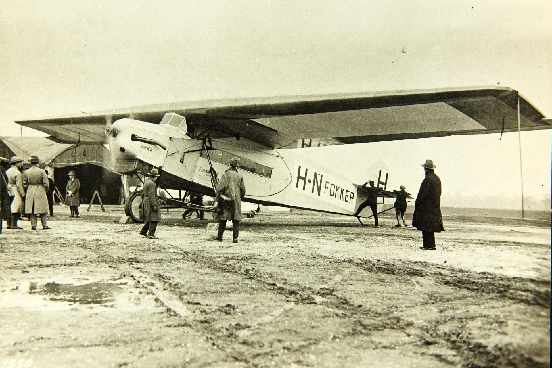 This Fokker F.VII, with the nonstandard "registration" H-NFOKKER, had a demonstration installation of a Napier Lion W-12 "broad arrow" engine. Catalog #: 01_00080273 Title: Fokker, F.VII Corporation Name: Fokker Additional Information: Single engine Designation: F.VII Tags: Fokker, F.VII Repository: San Diego Air and Space Museum Archive